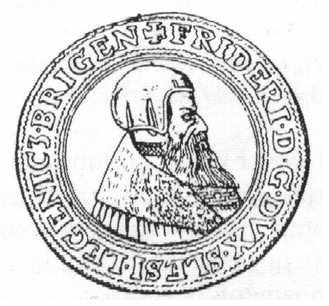 Avers of tolar, with Legnitz duke Fridrich II. 1541-1546